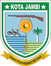 Coa of arms Jambi City